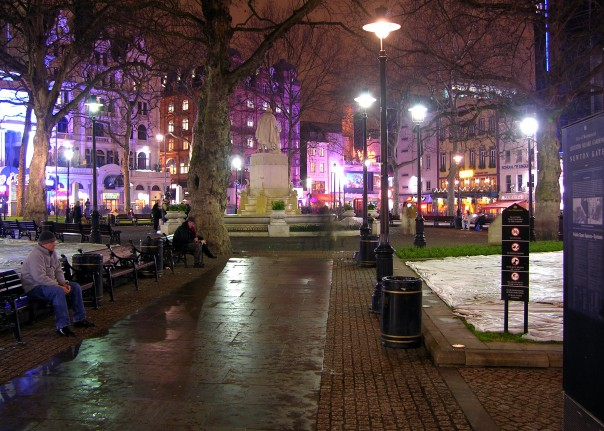 Leicester Square at night; looking through the park towards the north-east corner